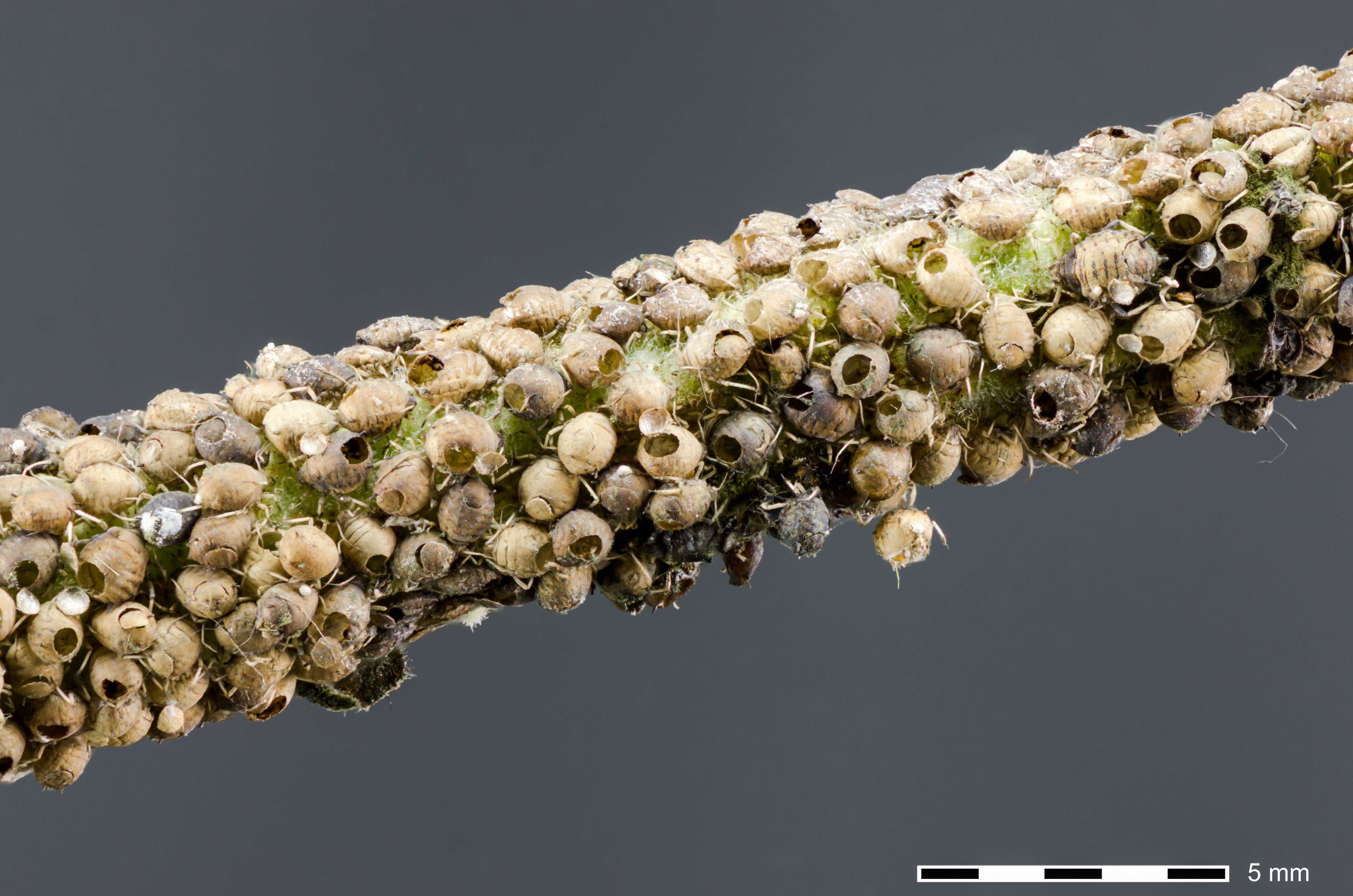 Aphids (Family Aphididae, most likely Aphis fabae) that were parasitized by wasps/aphidiids (subfamily Aphidiinae) on red foxglove (Digitalis purpurea): The wasp injects an egg into the aphid. The larvae grow in the aphids, they eat from the inside out completely and then cut a round hole in the aphid, through which they finally leave the host. Focus stack produced with Helicon Focus from 20 images.